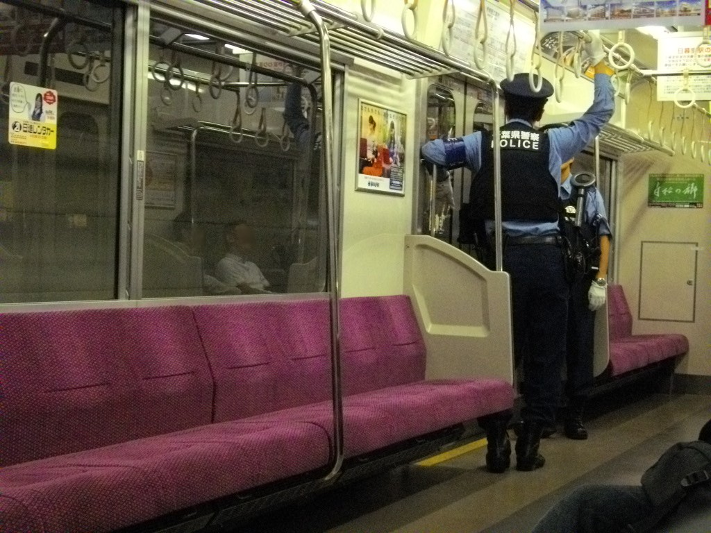 Policing train by Narita International Airport Security Force